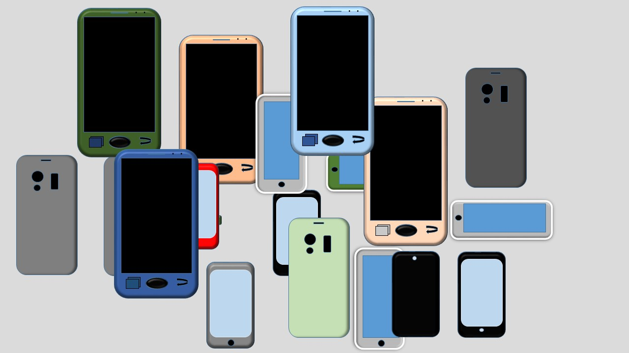 cell phone